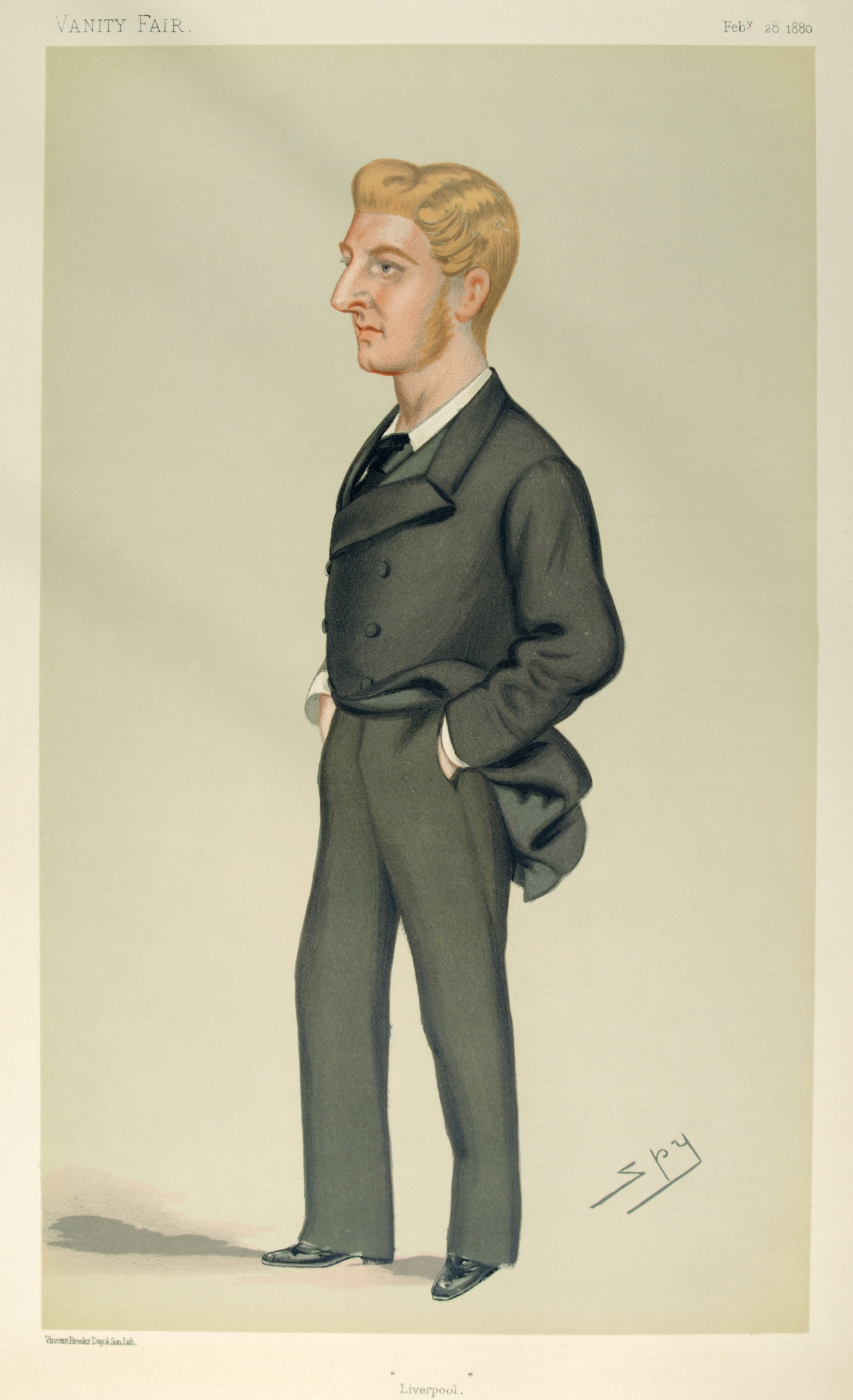 Men of the Day No.218: Caricature of Commander Lord Ramsay RN. Caption reads: "Liverpool"